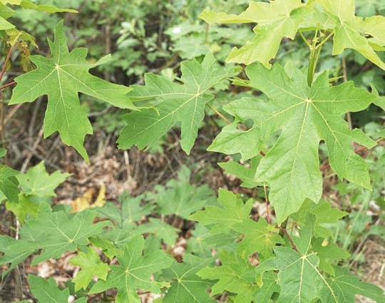 Acer macrophyllum — Bigleaf maple. Native to California and the Pacific Northwest. Transwiki approved by: User:Dmcdevit This image was copied from en. The original description was: Acer macrophyllum (Bigleaf Maple) foliage - US Govt. Bureau of Land Management photo.